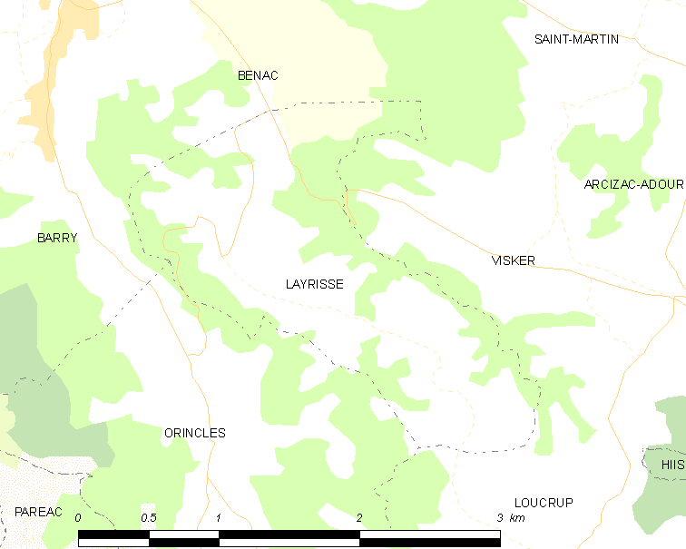 Map of French municipality